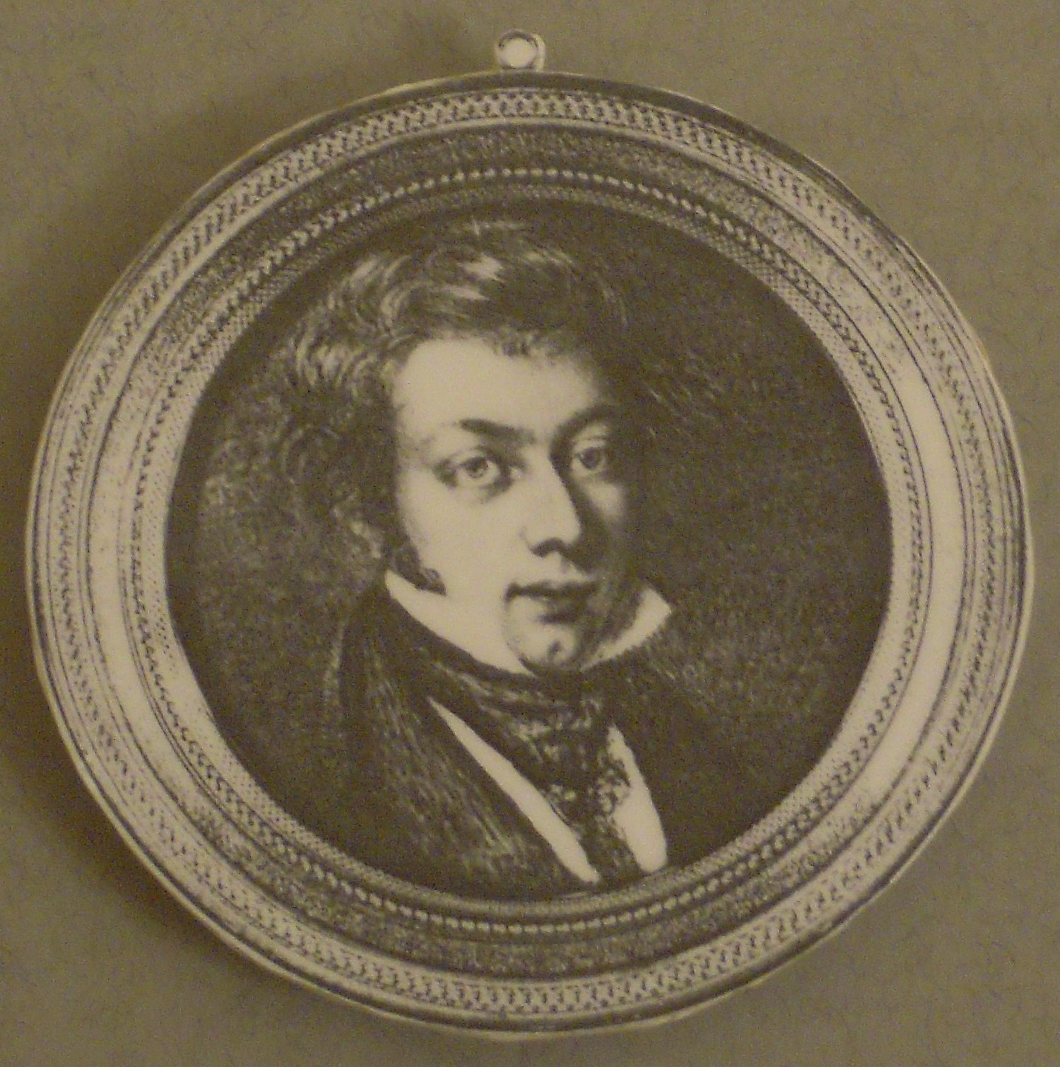 Frederick William Dickens (August 1820 – October 20, 1868)